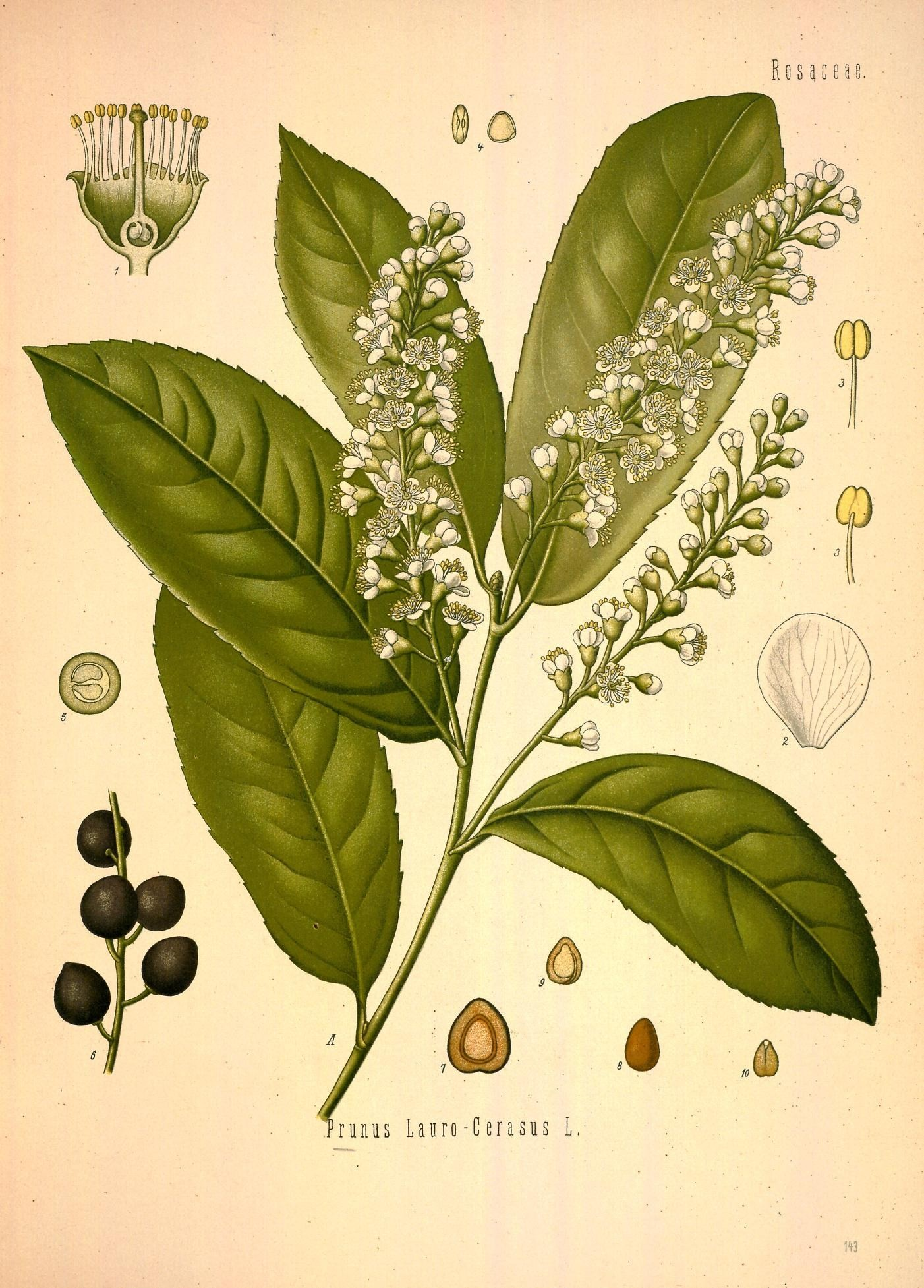 Prunus laurocerasus